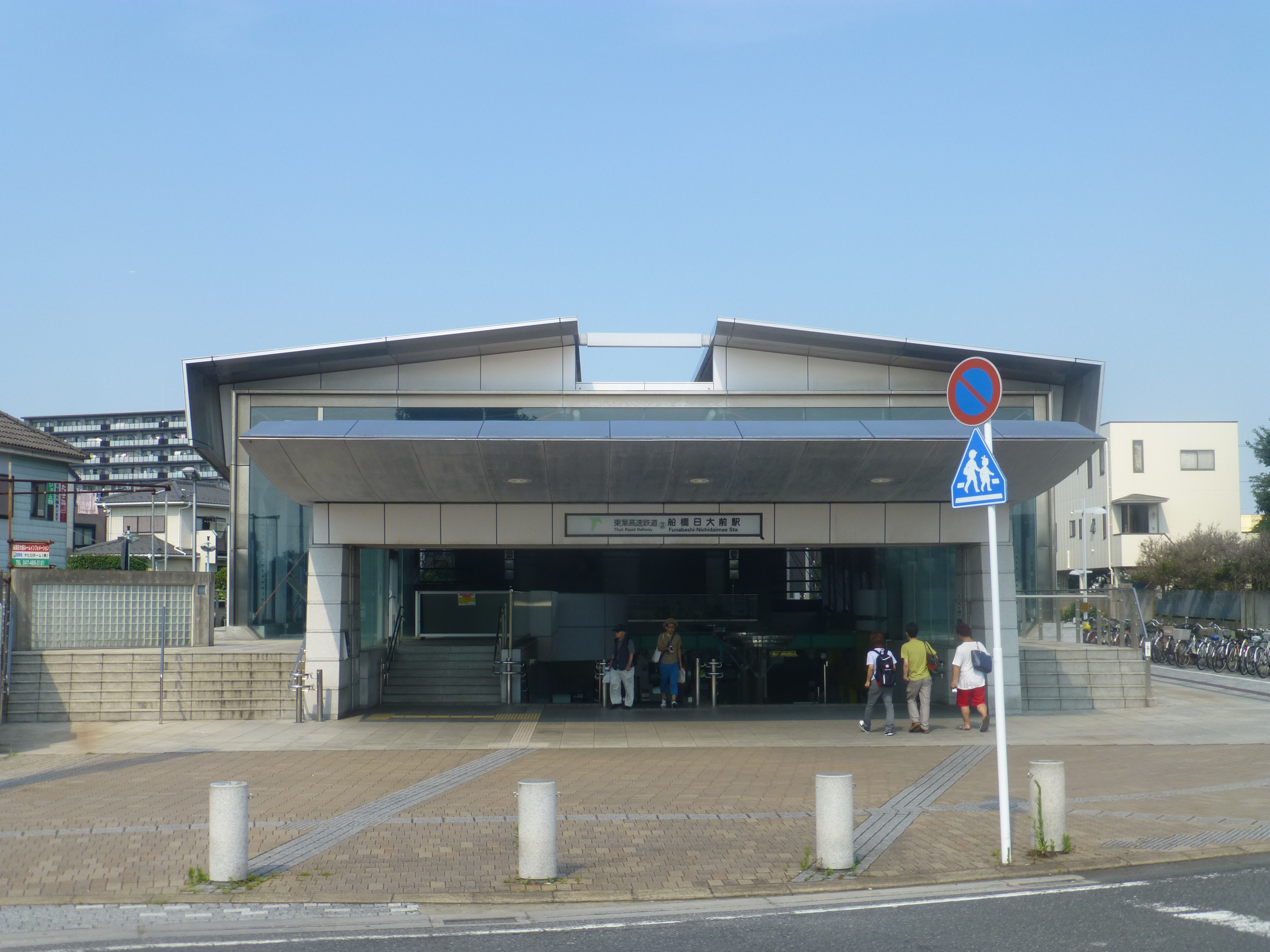 Funabashi-Nichidaimae Station west exit (船橋日大前駅の西口）